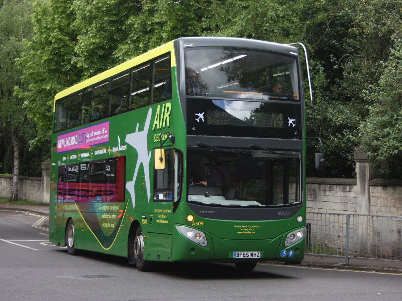 The 'Air Decker' from Bath to Bristol Airport has been diverted along North Parade due to a cycle race in the centre of Bath. This MCV EcoSeti is A509 in the Bath Bus Company fleet and carries registration BF65WHZ. It was operated by First South Yorkshire when new in 2015 but soon came to Bath.